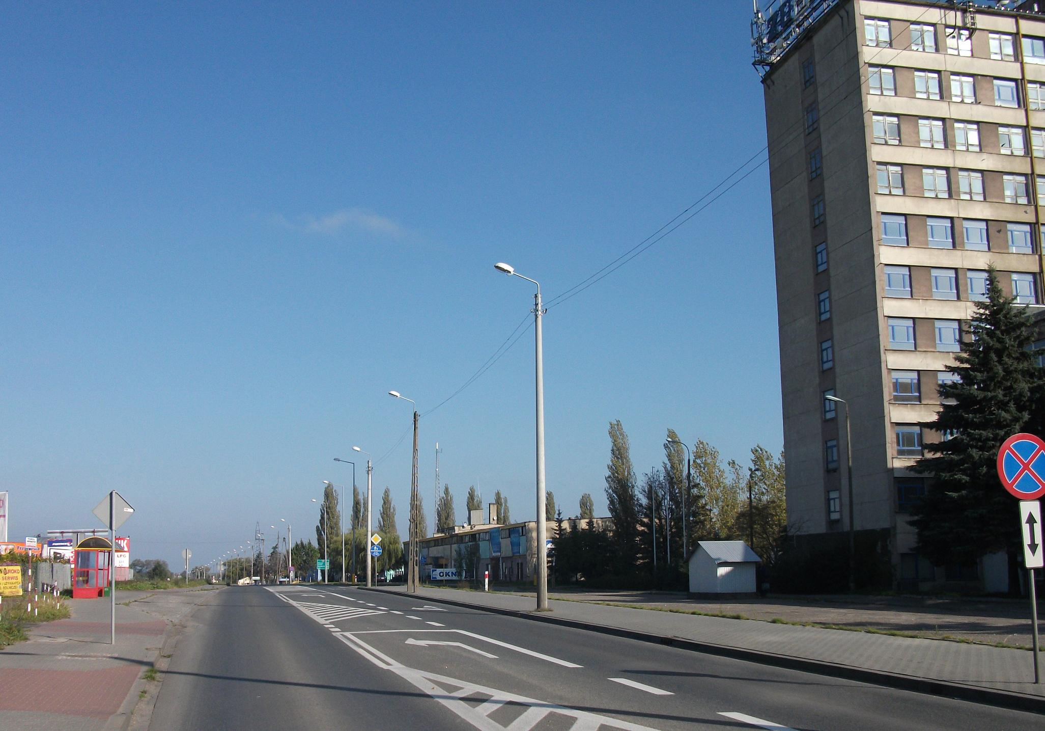 Sieradzka Street in Wieluń (National Road 45)